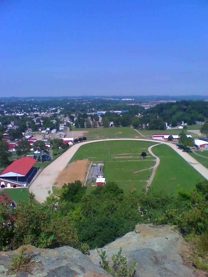 Lancaster Fair grounds. In Lancaster Ohio. The view from on top on Mount Pleasant.